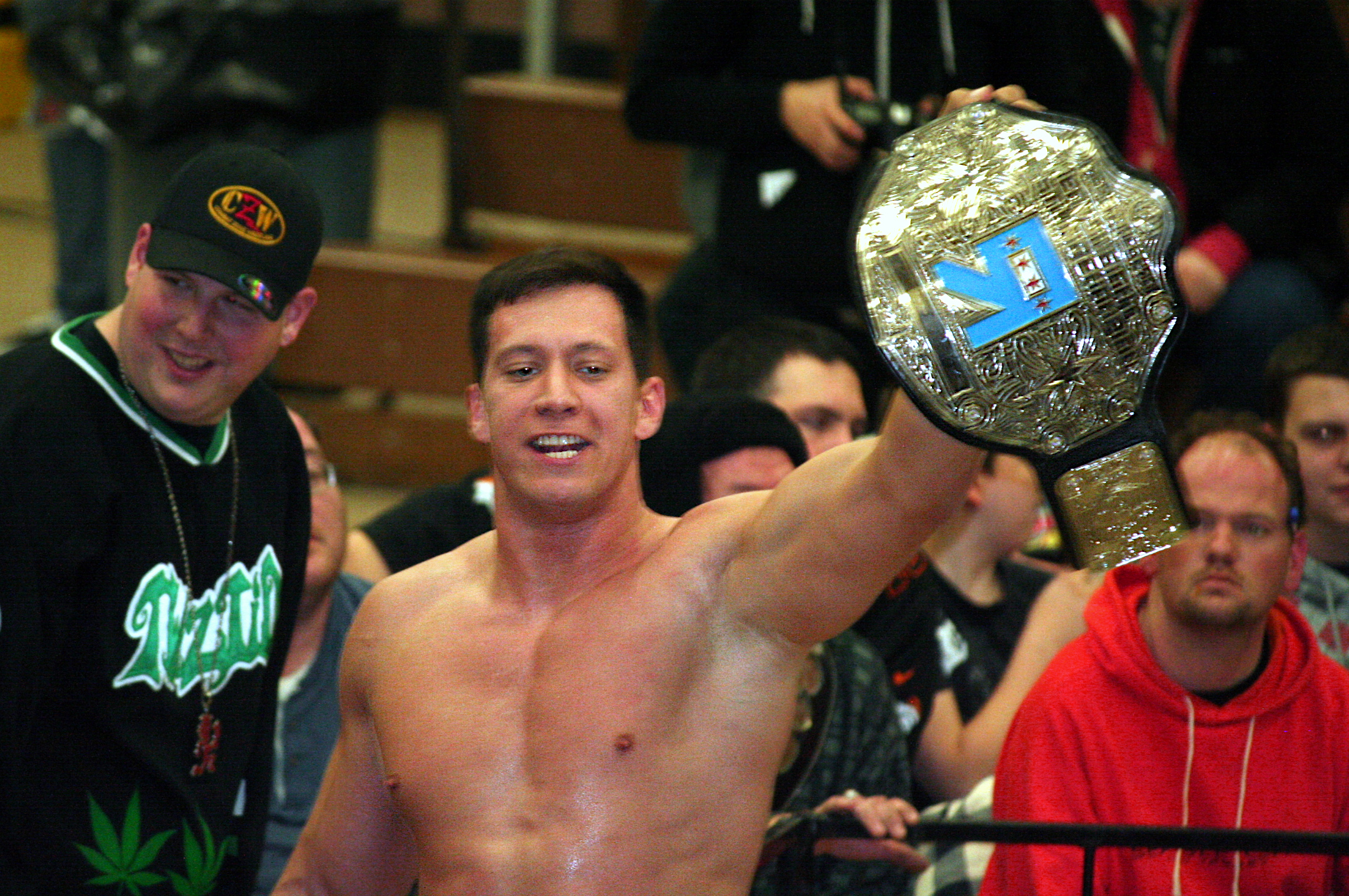 Professional wrestler Robert Anthony with the Resistance Pro Wrestling Heavyweight Championship belt during National Pro Wrestling Day.